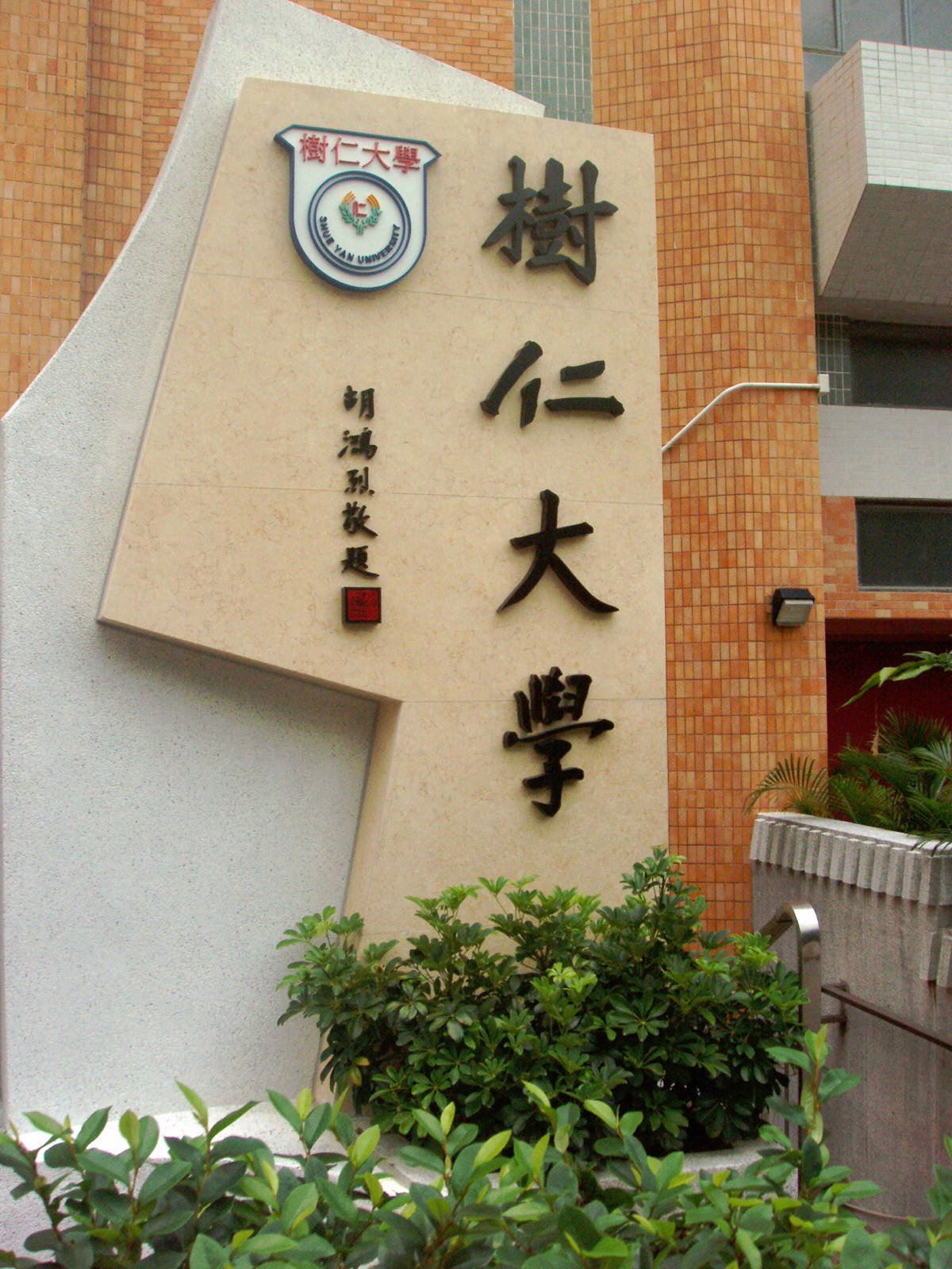 The sign stone in front of the Hong Kong Shue Yan University's Main Building